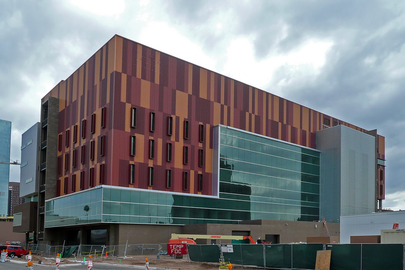 The Walter Cronkite School of Journalism and Mass Communication at the ASU Downtown Campus. Photo was taken while the building was under construction in 2008.